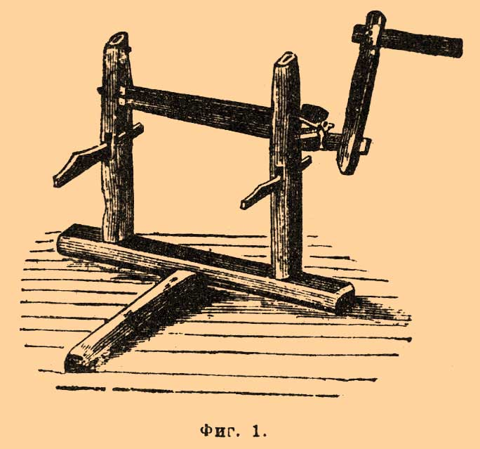 Illustration from Brockhaus and Efron Encyclopedic Dictionary (1890—1907)